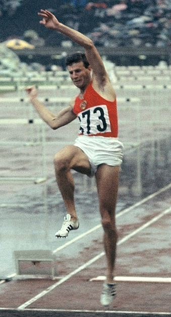 Igor Ter-Ovanesyan, 1964 Olympics